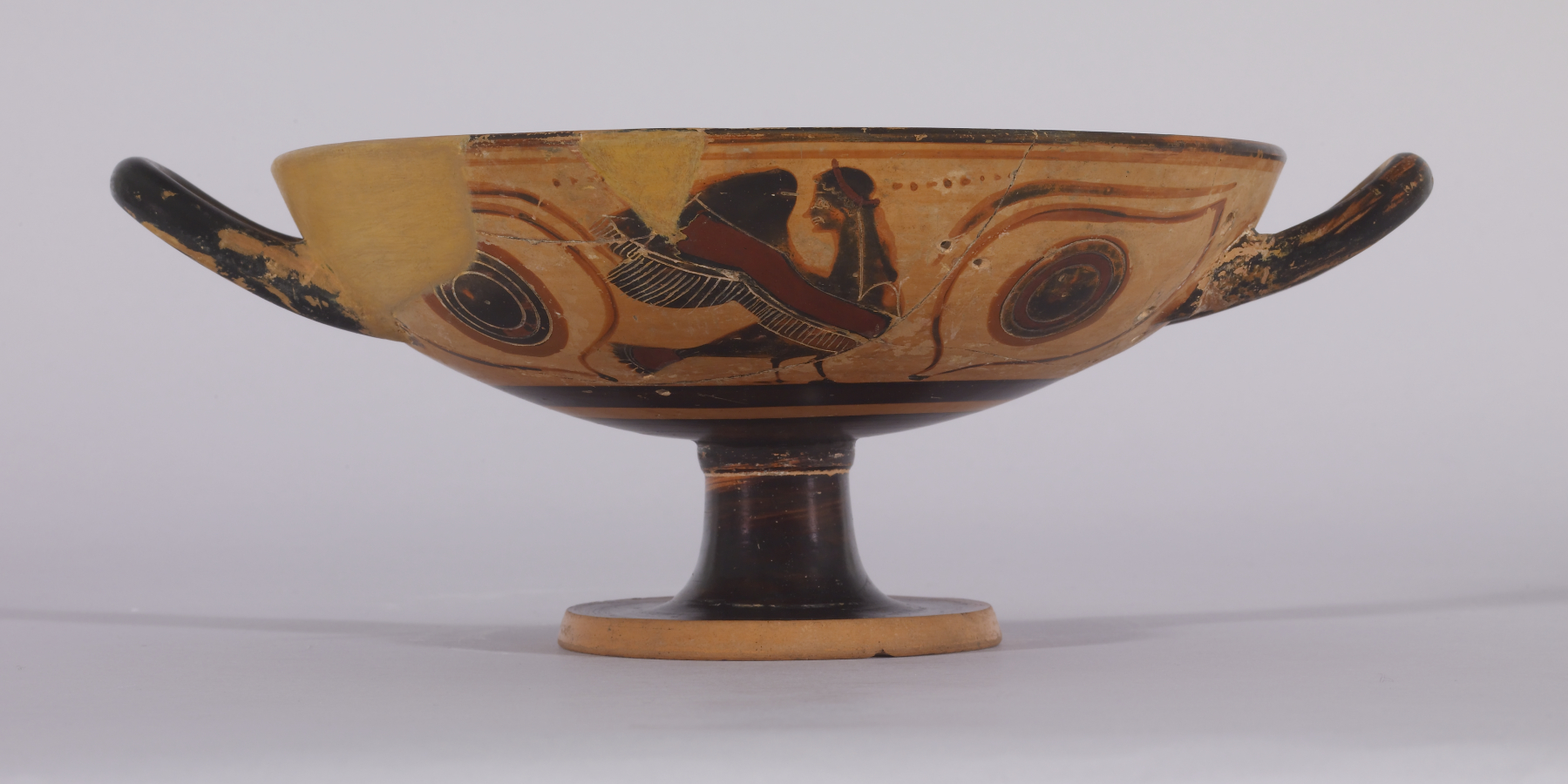 Homer does not describe the physical appearance of the Sirens, but their tantalizing beauty and alluring song captured the interest of commentators throughout antiquity. The Sirens are depicted as composite creatures as early as the 8th century BC, a motif perhaps derived from Egyptian sources. The earliest types, such as those seen here, are shown simply with women's heads and birds' bodies, without arms or hands. Sirens occur not only in narrative scenes with Odysseus and his men, but also as decorative motifs (as do sphinxes); during the Classical period they come to have associations with funerary iconography. The two-handled vase shown here is a type of kylix known as an eye cup, which would resemble a mask when raised to the lips during the symposium. The simple, black-slip interior reveals several small holes around the handles that were used for repairs in antiquity. On the exterior, a similar composition dominates each side of the vase in a single band. Between two large eyes stands a siren; on one side, the siren faces frontally to the right, on the other side, she turns her head, looking back. Their full wings are simply drawn, with bands of added red pigment. Beneath their feet runs a simple ground line of black glaze. Above each siren are traces of an inscription, perhaps the signature of the potter or painter, though it is no longer readable.